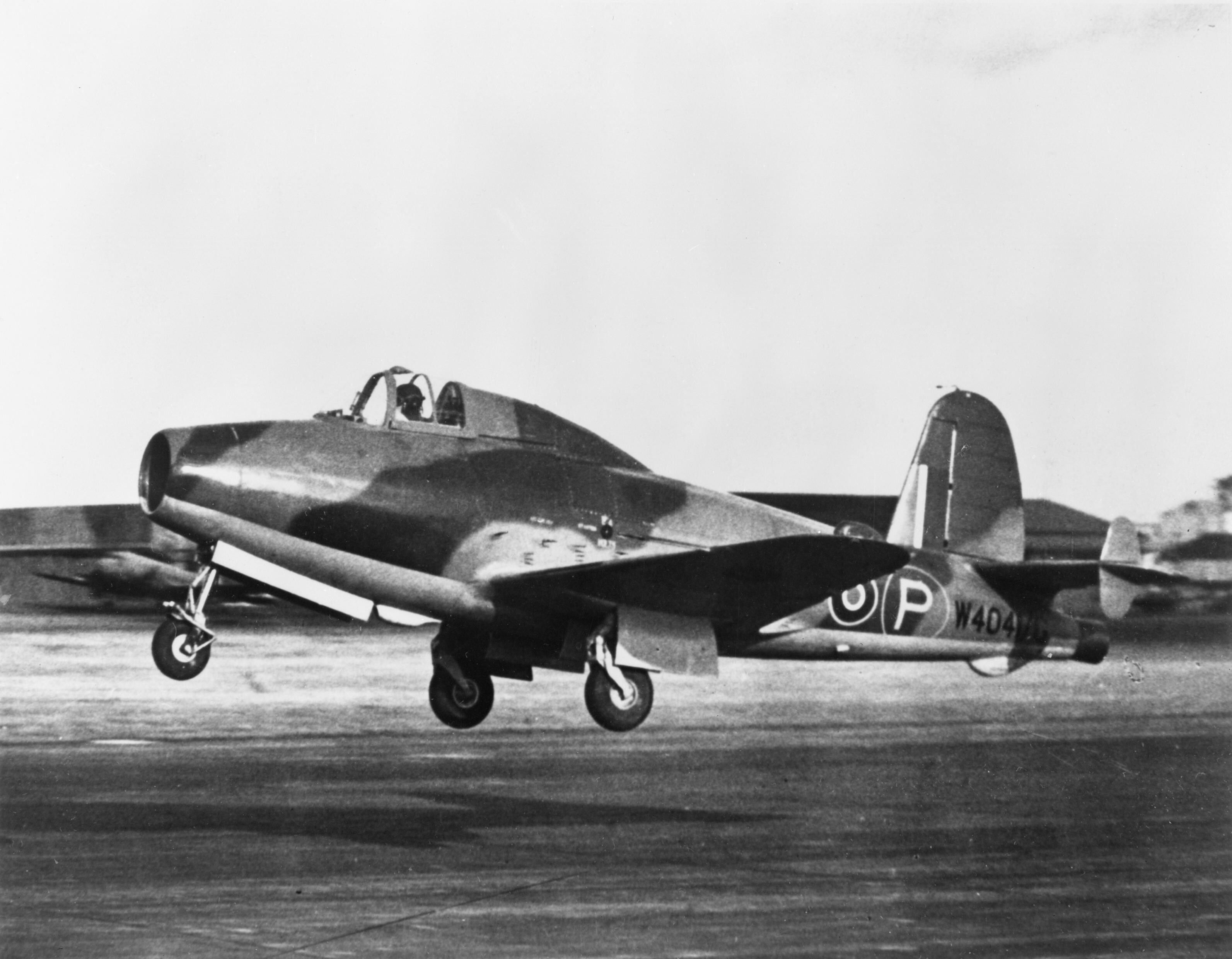 Gloster E.28/39 (W4041), Farnborough, Sqn Ldr J Moloney, c. 1941